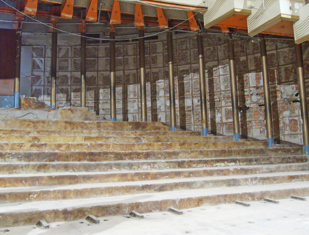 Hall of Wuppertal Opernhaus during reconstruction, 2007